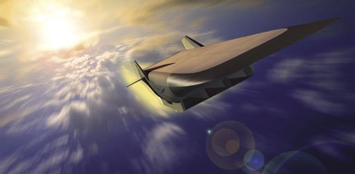 Image for the NASA facts about the NASA’s Space Launch Initiative at wiki source